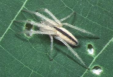 female Larinia argiopiformis from Okinawa.